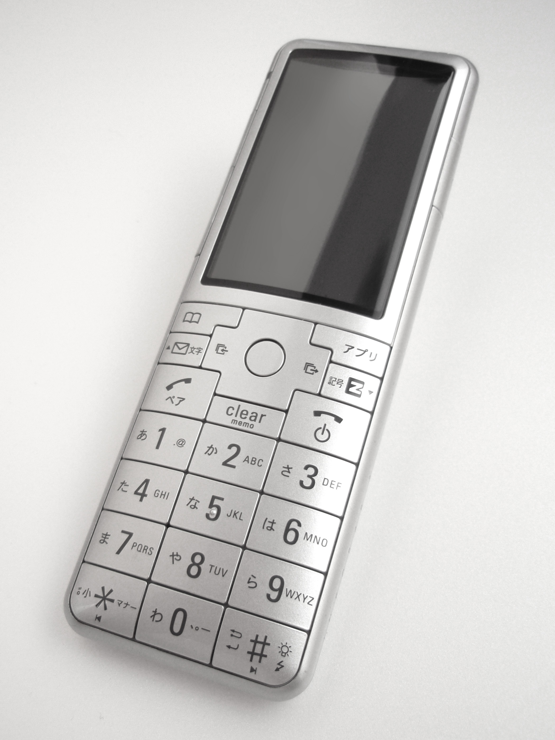 INFOBAR2 is Japanese mobile phone. Designed by Naoto Fukasawa.